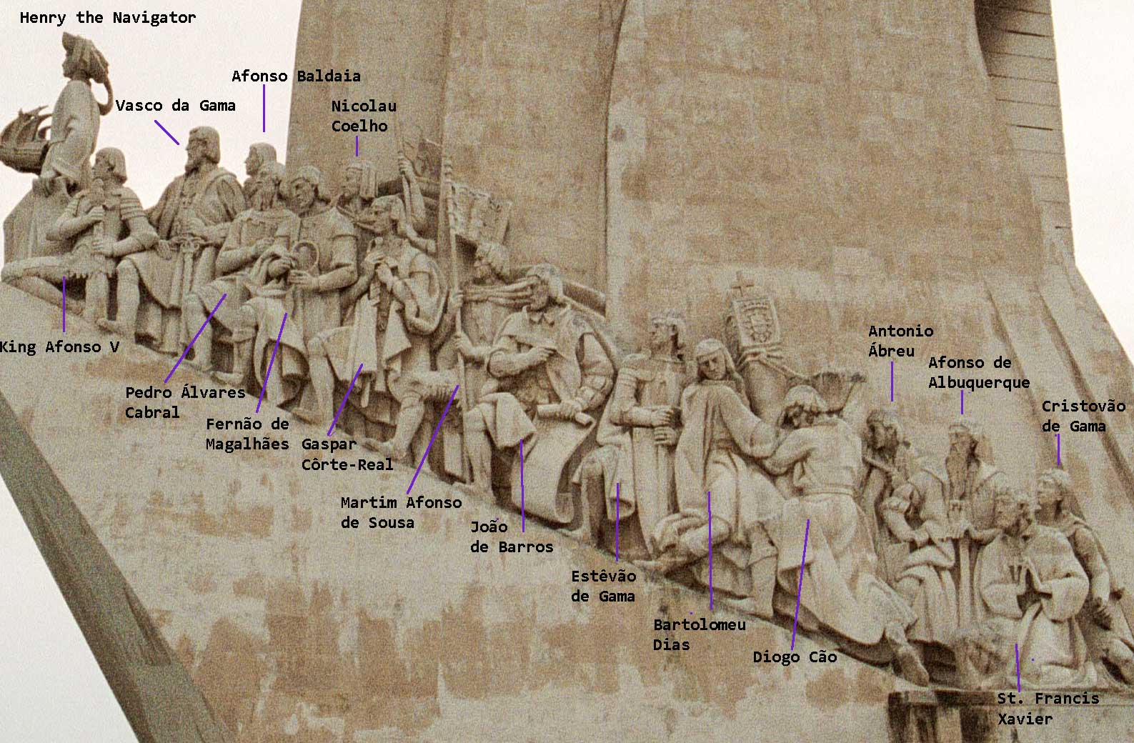 East side of the Monument to the Portuguese Discoveries (Padrão dos Descobrimentos) in Lisbon, with labels of individuals represented.